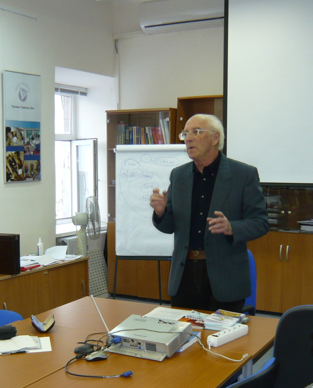 Photo of Solomonick Abraham